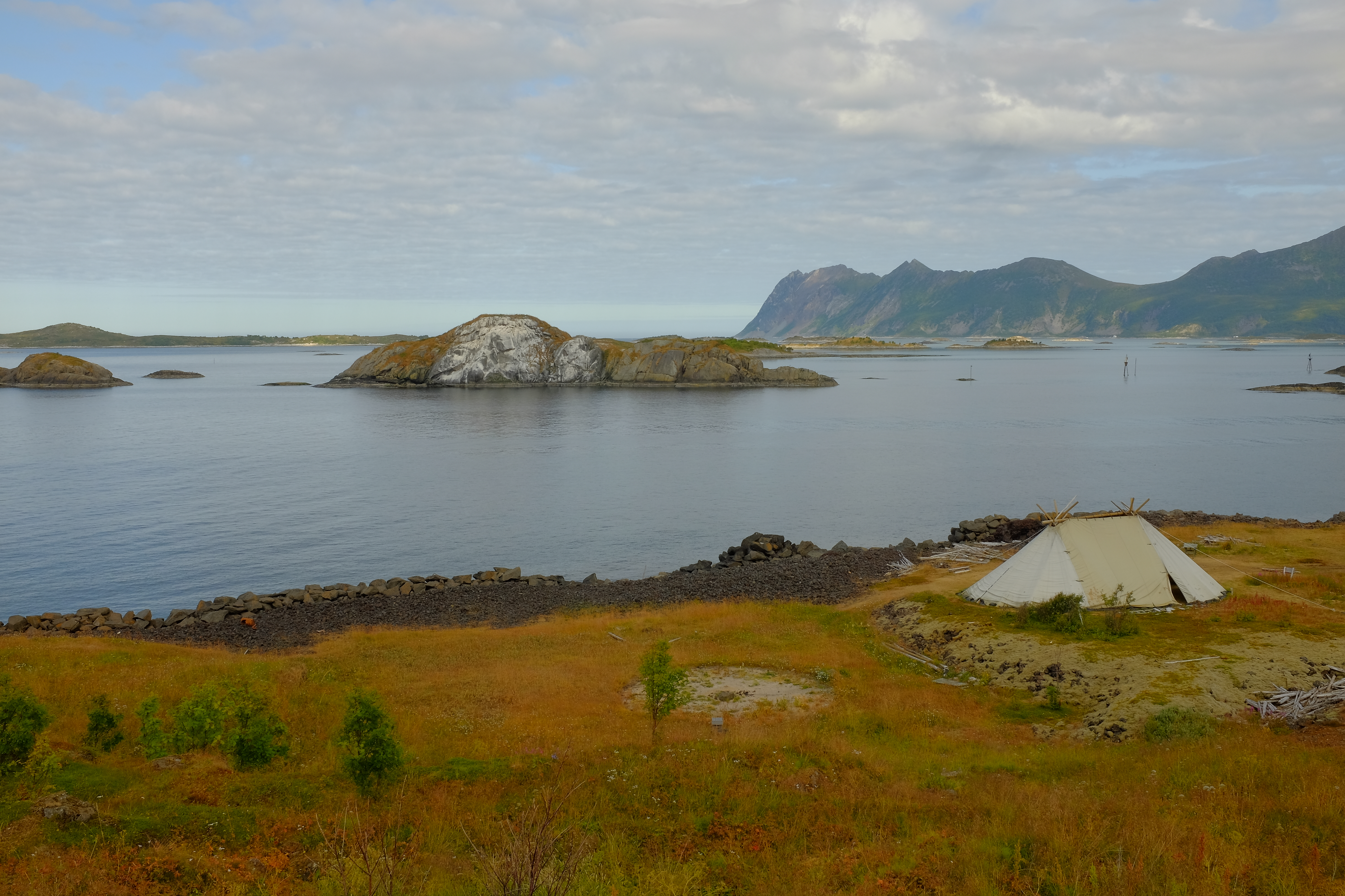 Senjens Nikkelverk is a former mine at Senja in Troms county, which was in operation for 14 years (1872-1886), and which now remains as a cultural monument on the site.